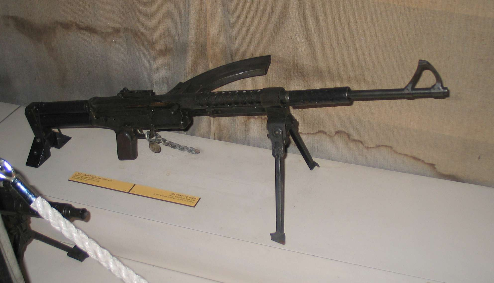 Batey ha-Osef museum, Tel Aviv, Israel. Dror light machine gun.